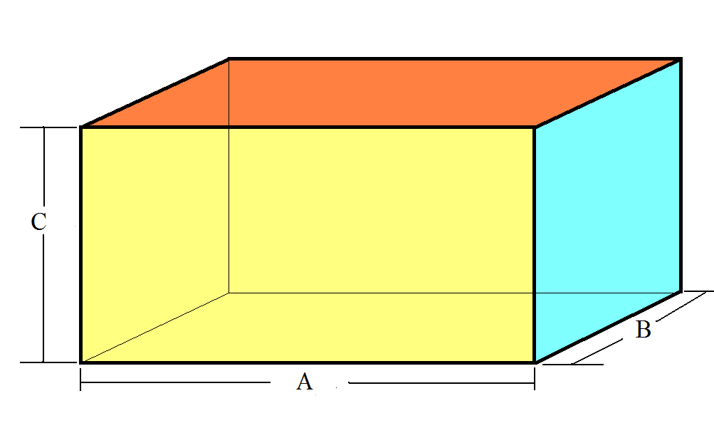 Rectangular cuboid